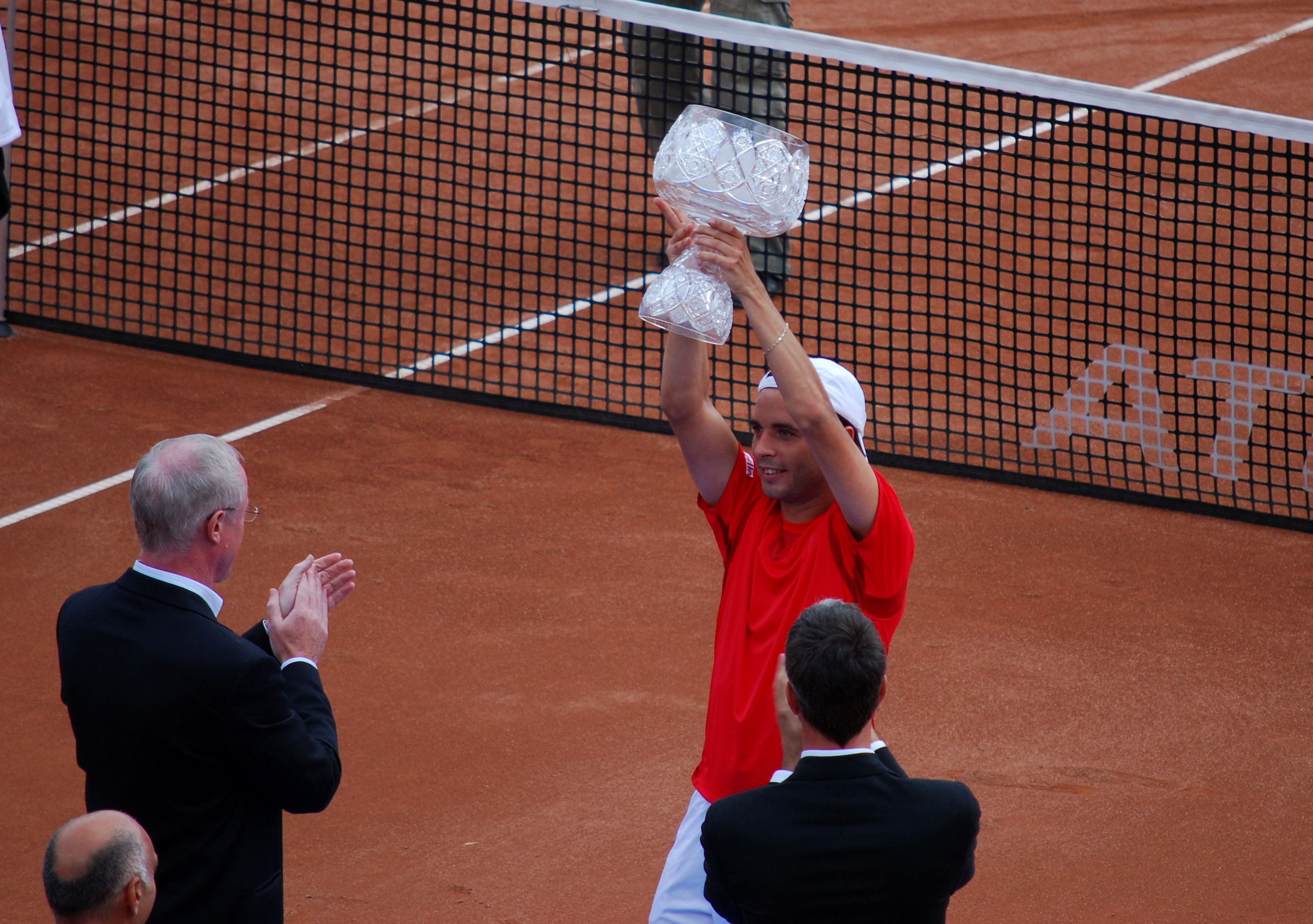 Spanish tennis player Albert Montañés raising the BCR Open Romania 2009 tropy after winning the final